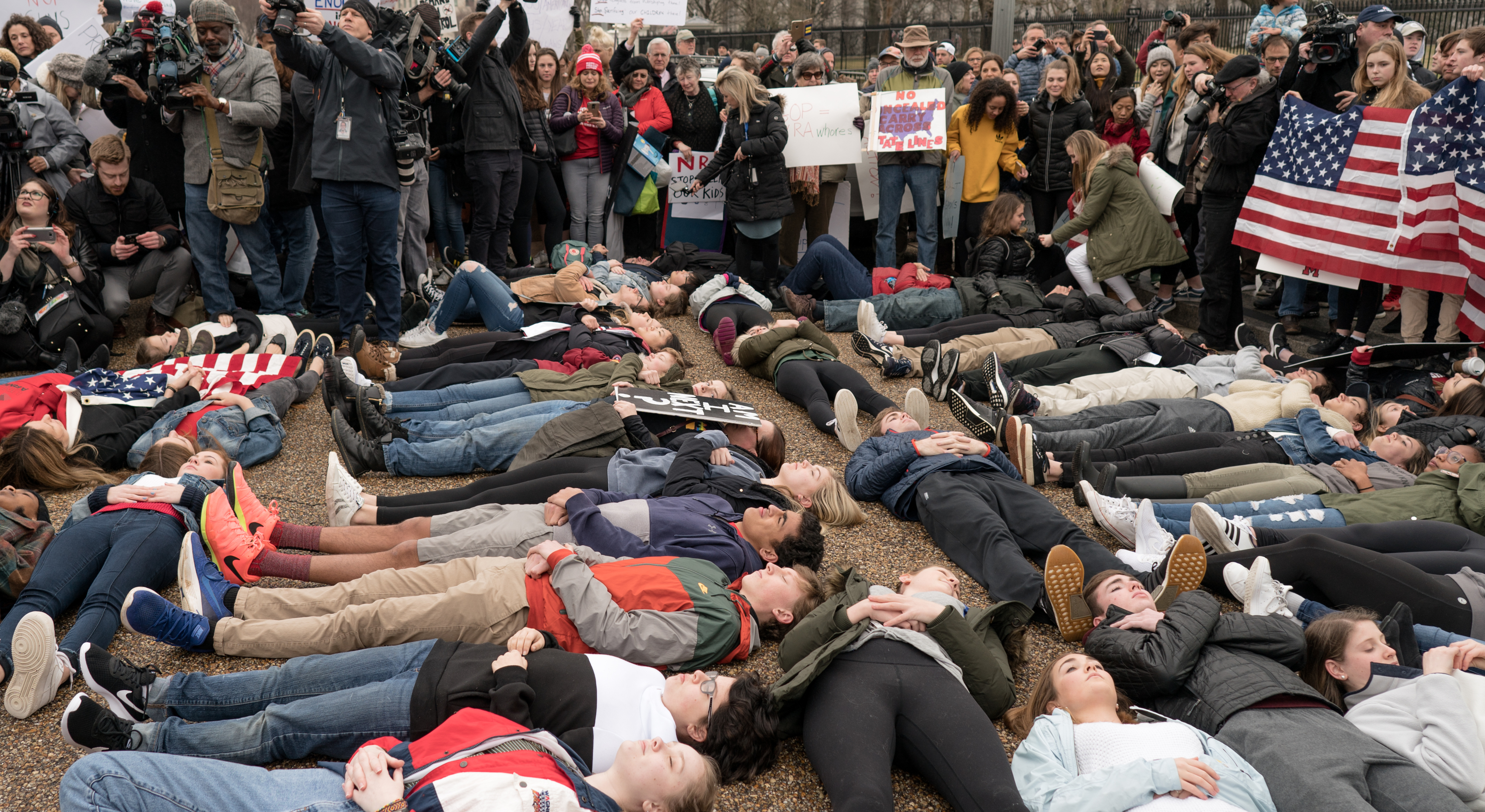 Student lie-in at the White House to protest gun laws. The demonstration was organized by Teens For Gun Reform, an organization created by students in the Washington DC area, in the wake of the February 14 shooting at Marjory Stoneman Douglas High School in Parkland, Florida.